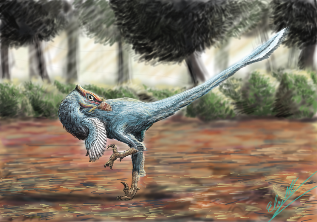 Pamparaptor micros life restoration